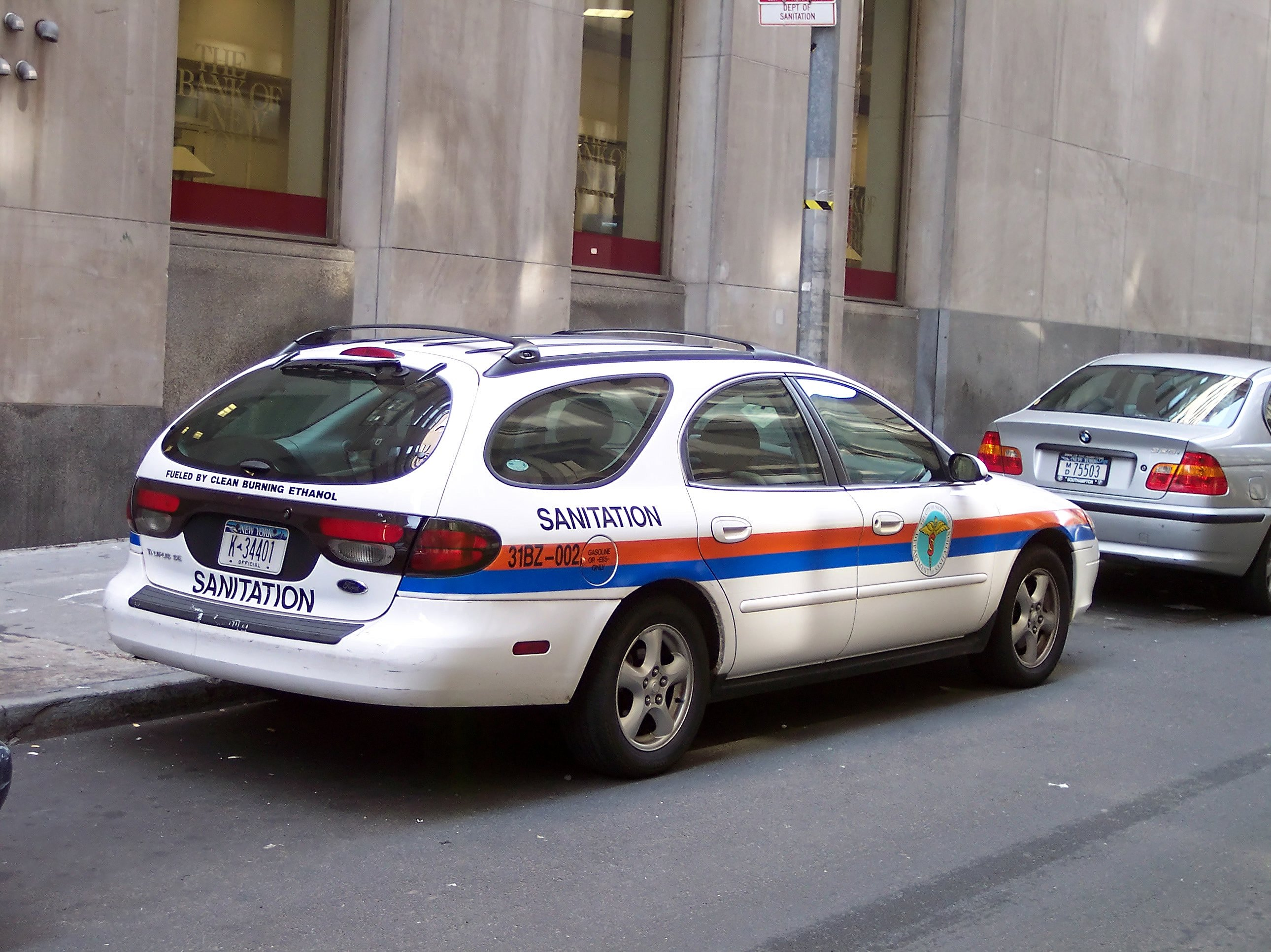 A New York City Department of Sanitation automobile "fueled by clean burning ethanol".